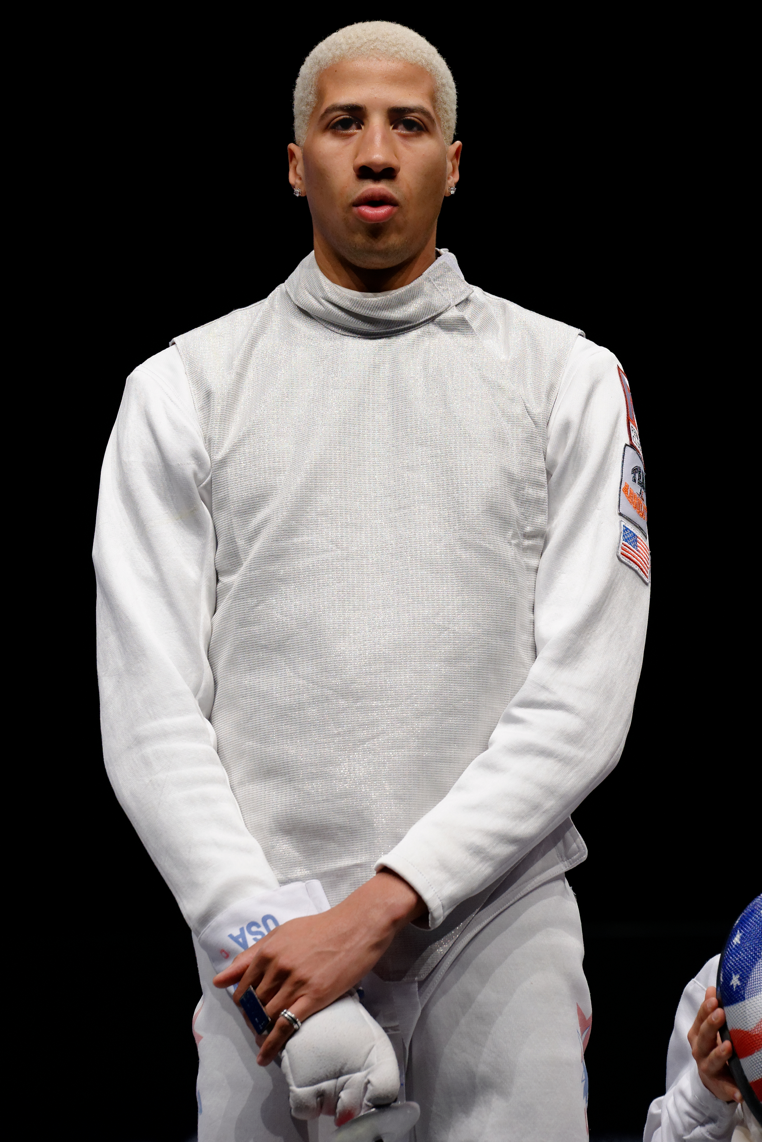 Miles Chamley-Watson is introduced to the crowd during the opening of the 2014 Master de Fleuret Melun Val de Seine.